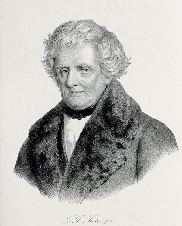 Johann Jakob Hottinger (1783-1860). Original lithography on Japan paper (about 21x16cm). Author information printed on the document (but not shown on the photo): Friedrich Hasler, Baden in the Aargau, 1868-71.